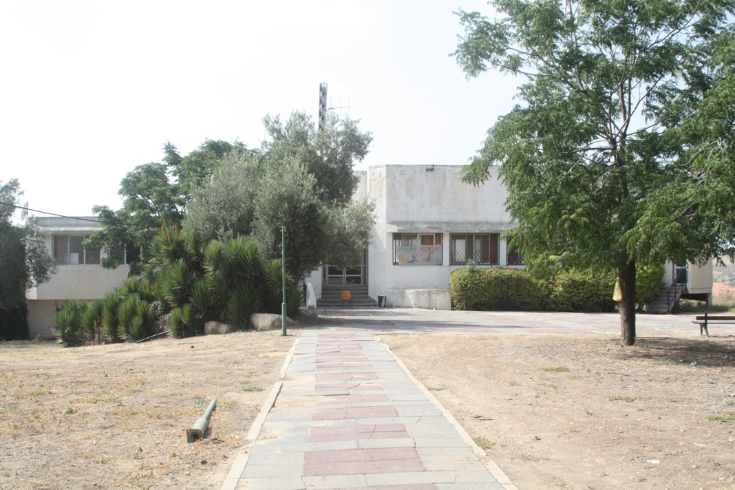 Bet Ha'am, Taoz